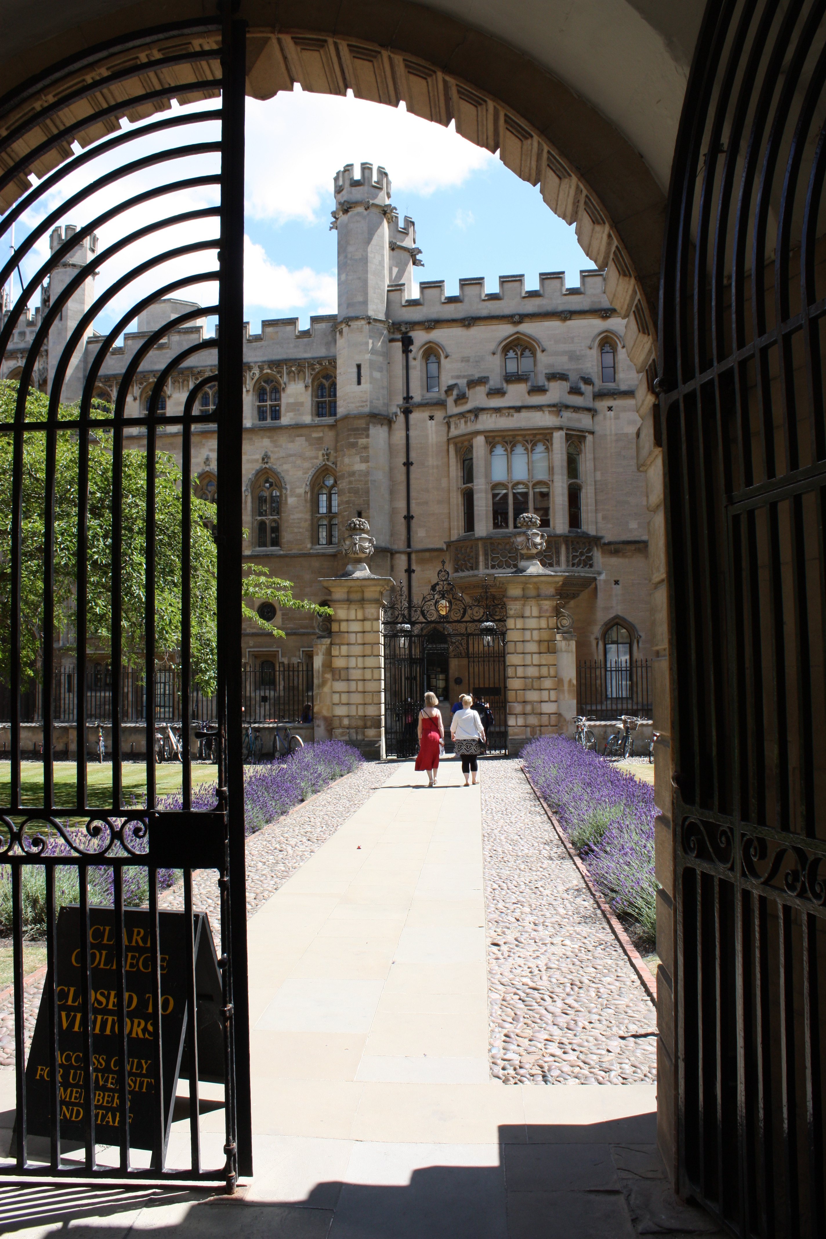 Clare College, Cambridge, Cambridgeshire, England, July 2010